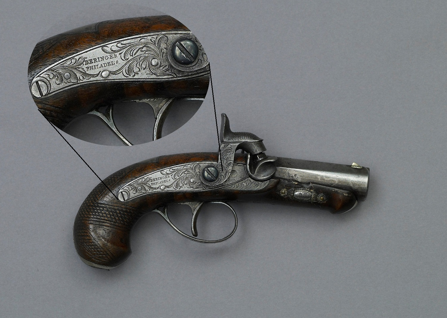 A Philadelphia Deringer pistol with close-up insert